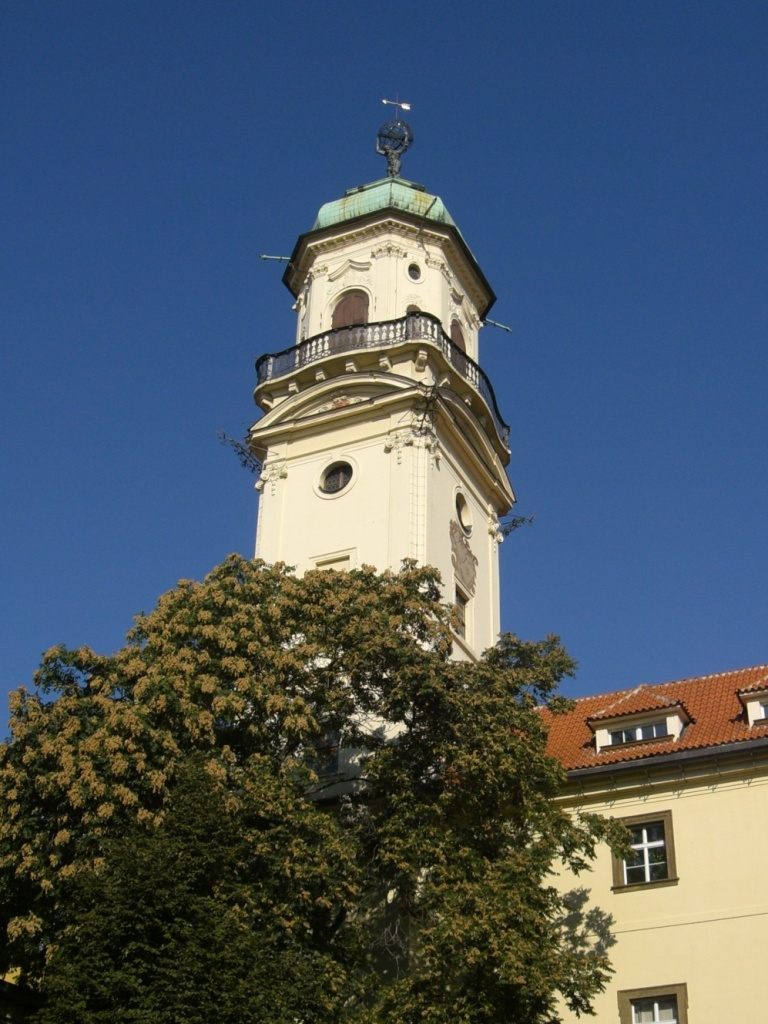 Klementinum, astronomical tower.